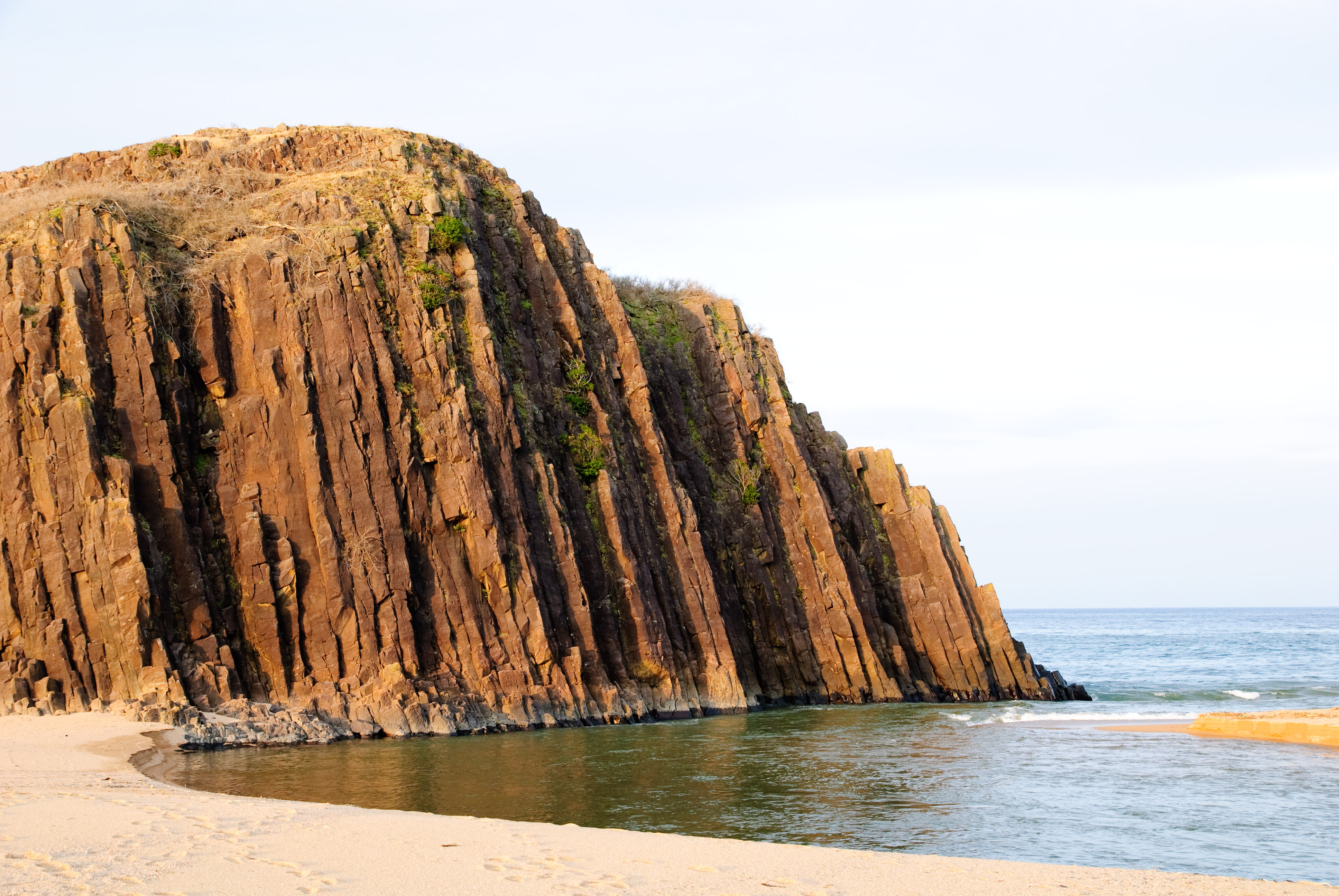 Tateiwa in Kyotango, Kyoto Prefecture, Japan.